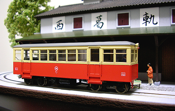 H0e microlayout named Saikatsu Tramway.